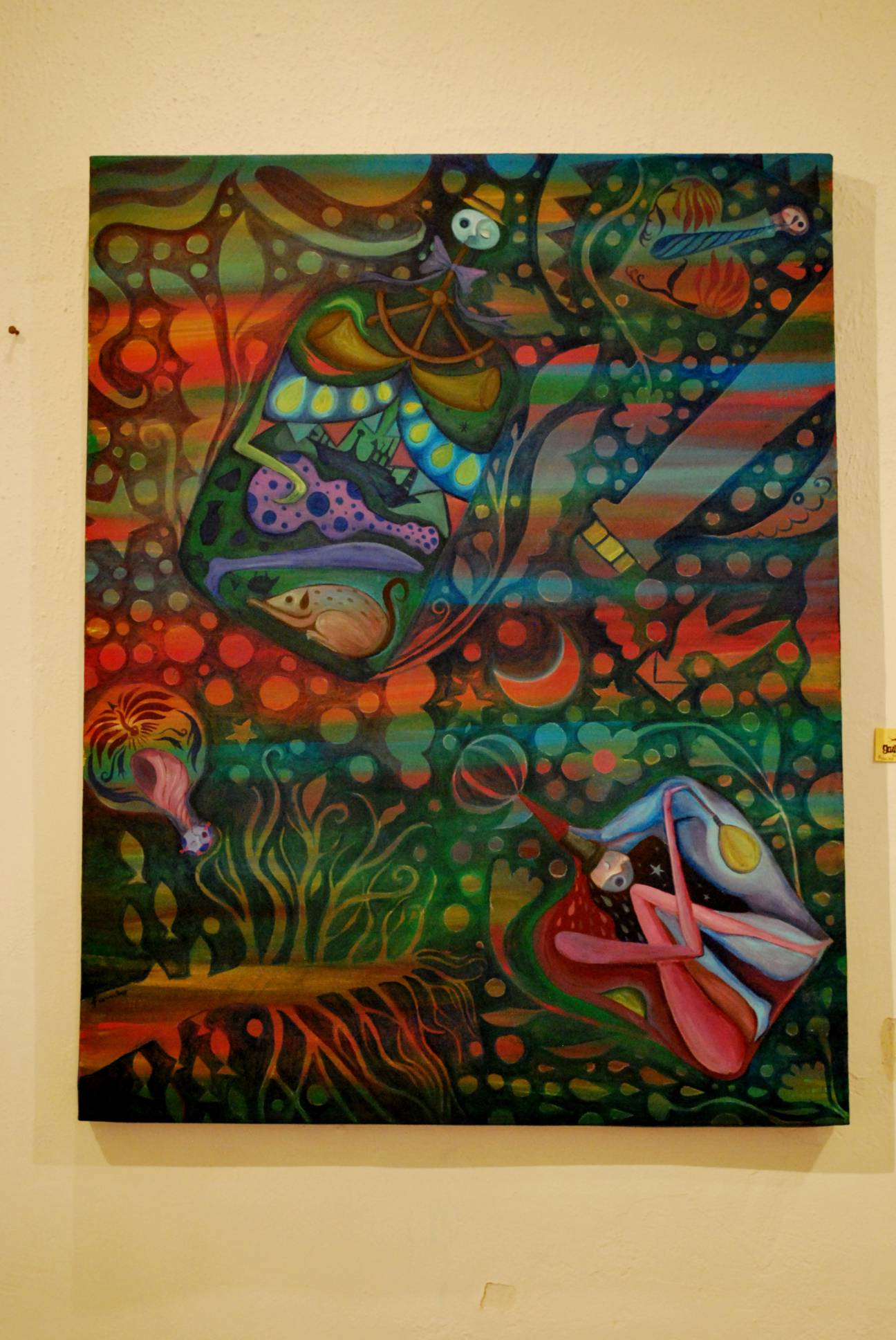 Painting by Fumiko Nakashima ( at Galeria Garros ( in Mexico City